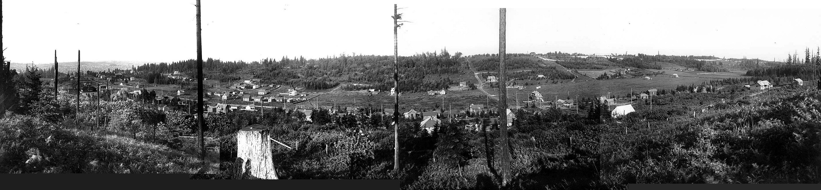 Asahel Curtis panorama of Pleasant Valley, Magnolia district, Seattle, 1909. This JPG graphic was created with GIMP.